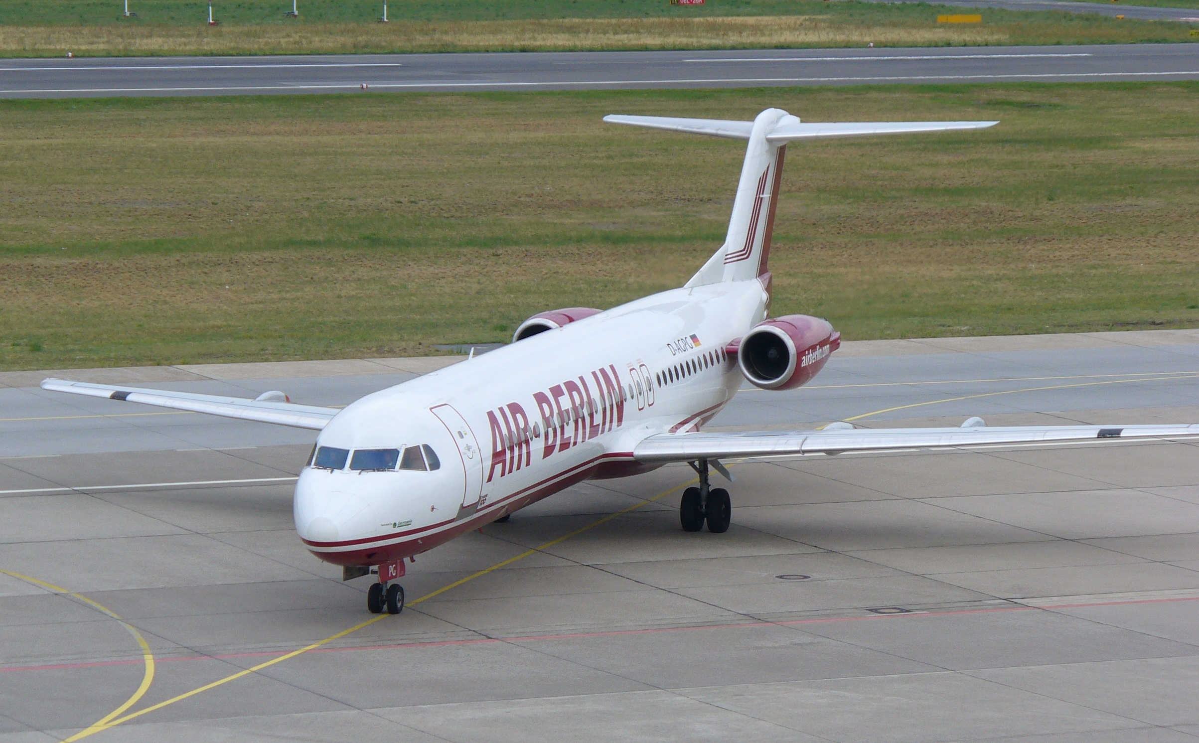 A Fokker 100 aircraft of Air Berlin pulling into gate at Berlin Tegel Airport after a flight from Munich.